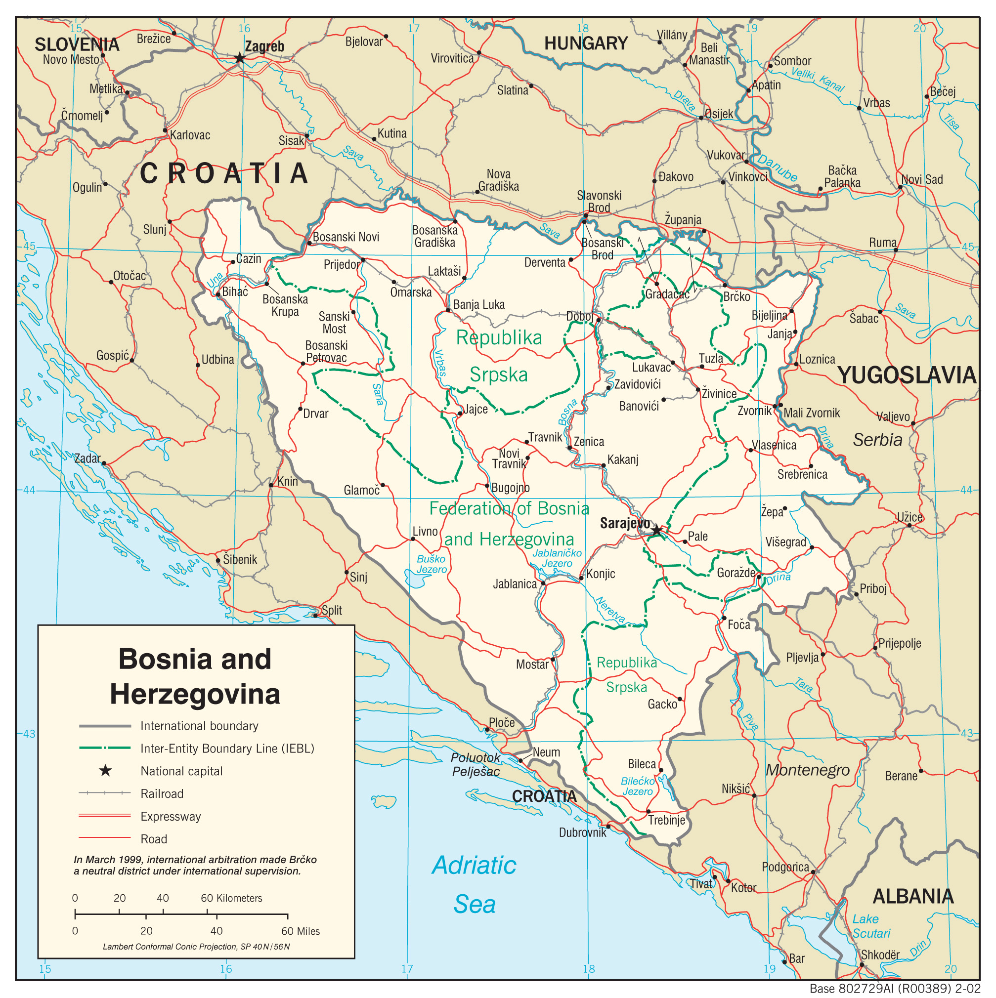 Transport system in Bosnia and Herzegovina, 2002.